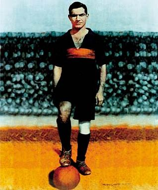 Argentine footballer Arico Suárez in the kit of Boca Juniors, taken between 1929 and 1942